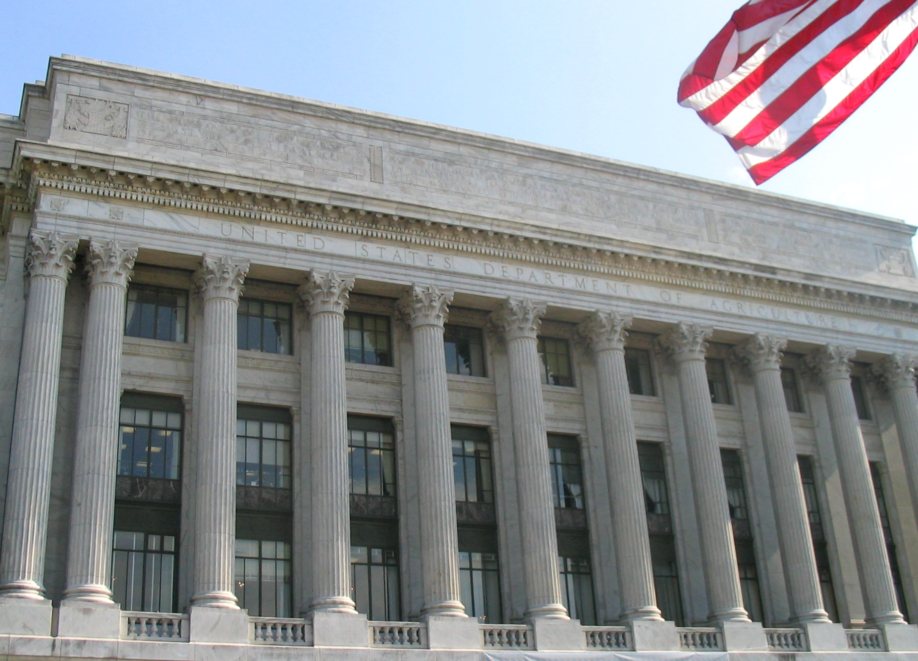 Exterior of the Jamie L. Whitten Building, the U.S. Dept. of Agriculture headquarters, along the Mall at Washington DC.